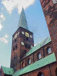 The cathedral in Århus, Denmark